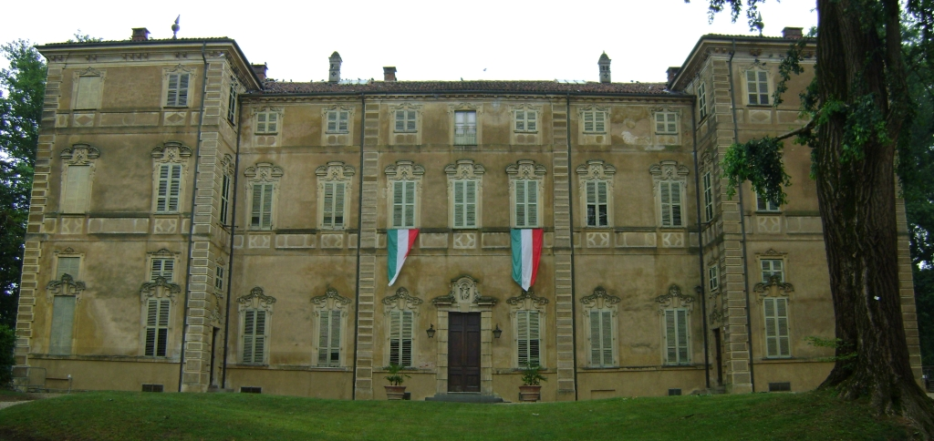 Benso di Cavour family palace at Santena (Italy)